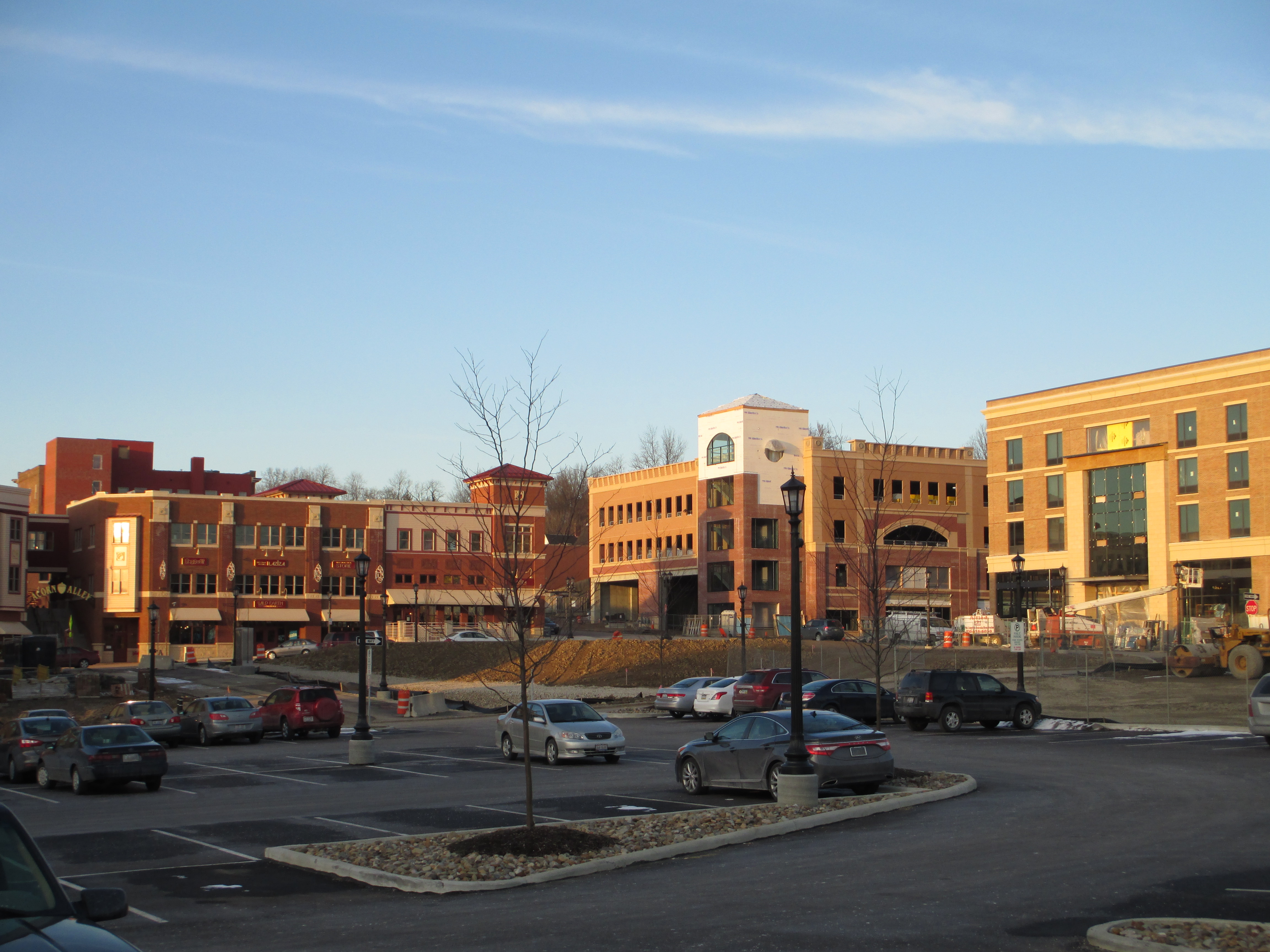 View of downtown Kent, Ohio showing some of the recent redevelopments either completed or under construction. From left is a shopping area known Acorn Alley, a transit facility known as the Kent Central Gateway, and the Kent State University Hotel & Conference Center. The historic Franklin Hotel, renamed Acorn Corner, can be seen in the left background.